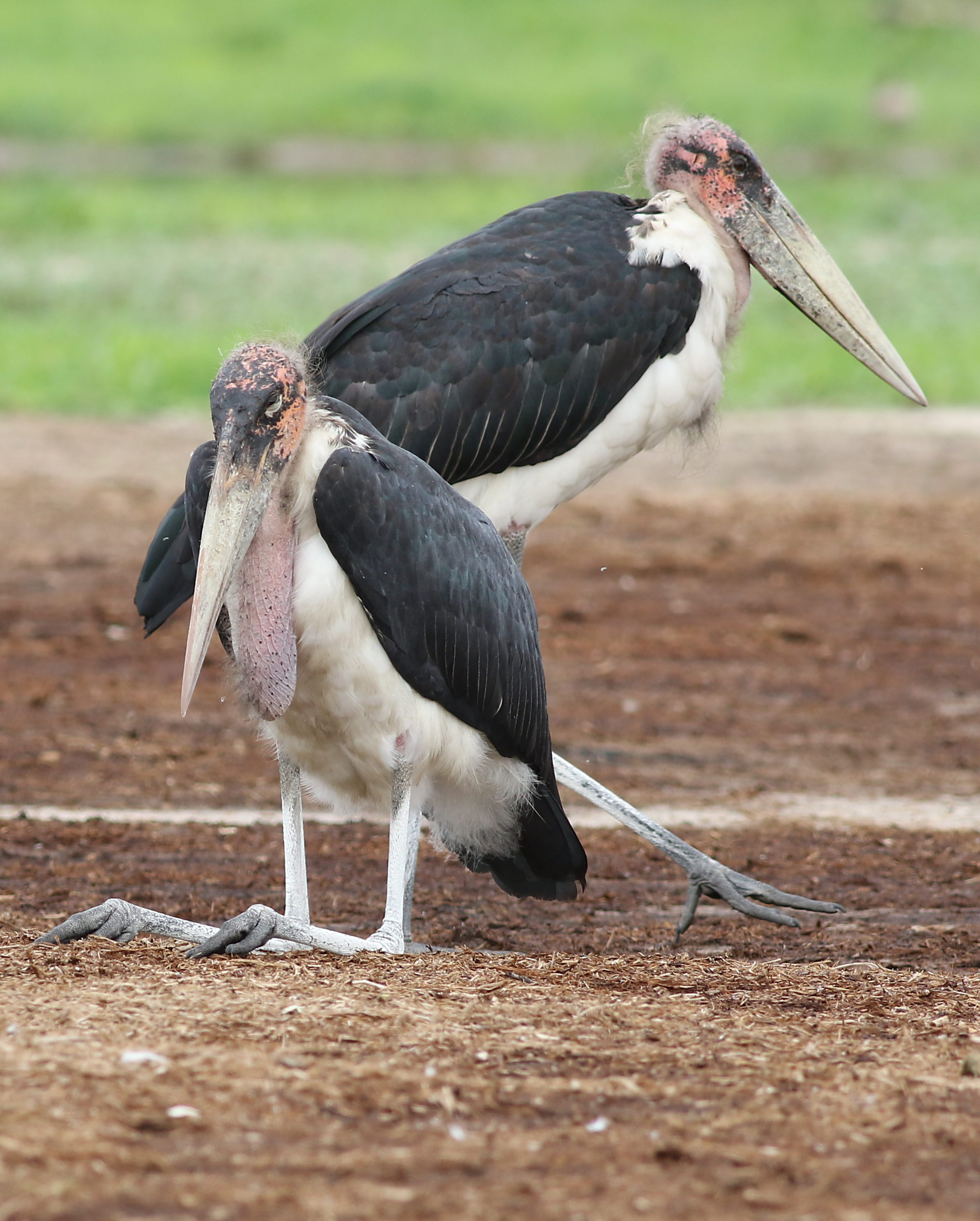 Marabou Stork, Leptoptilos crumeniferus, at the aptly named Marabou Pan, Savuti, Chobe National Park, Botswana